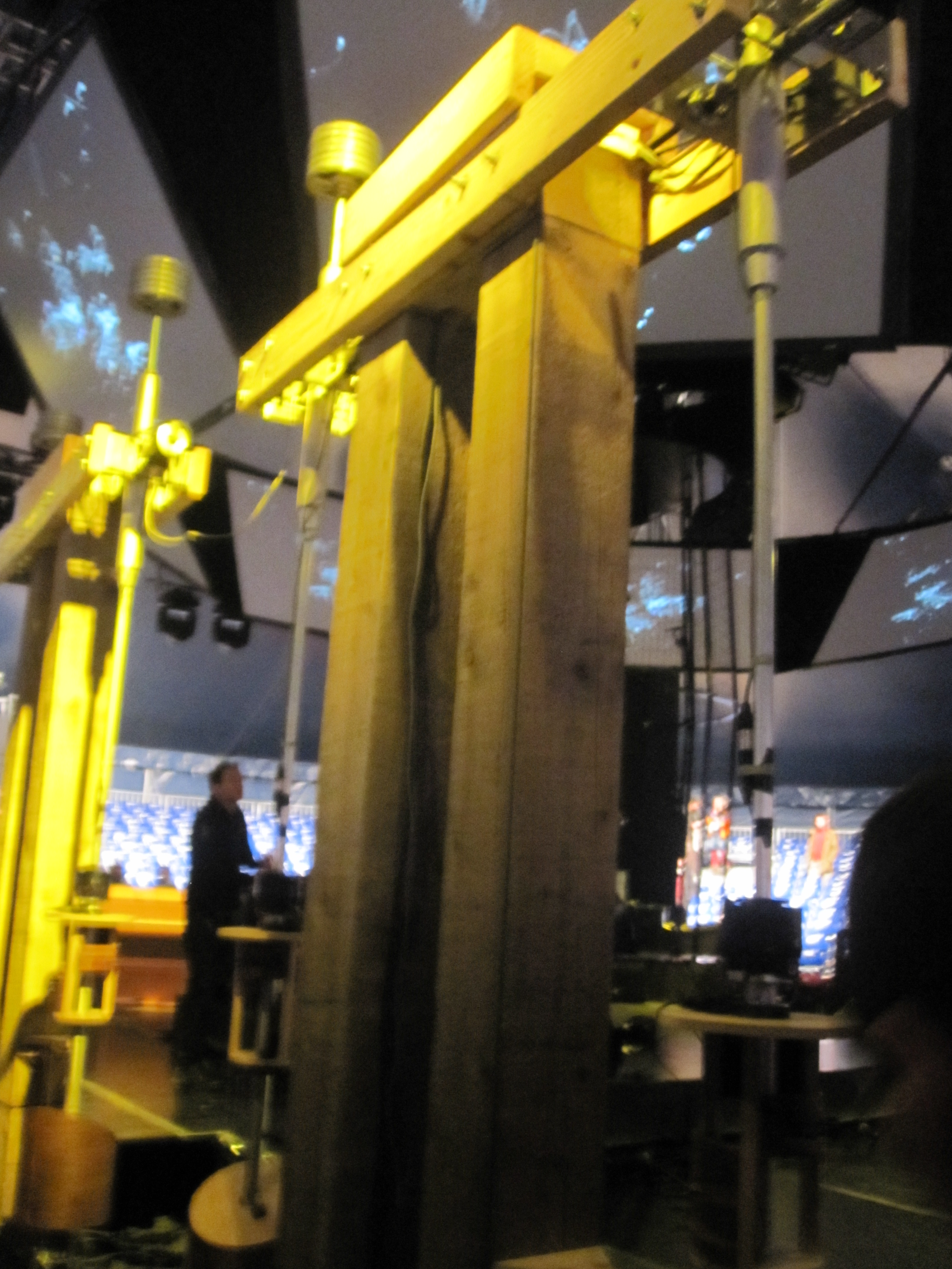 These are the "Pendulum Harps" or "Gravity Harps" conceived by Björk and realised by Andy Cavatorta of the MIT. These were used for the Biophilia album and live tours. In this photo they are pictured after the concert at the Cirque en Chantier in Paris on 27 February 2013